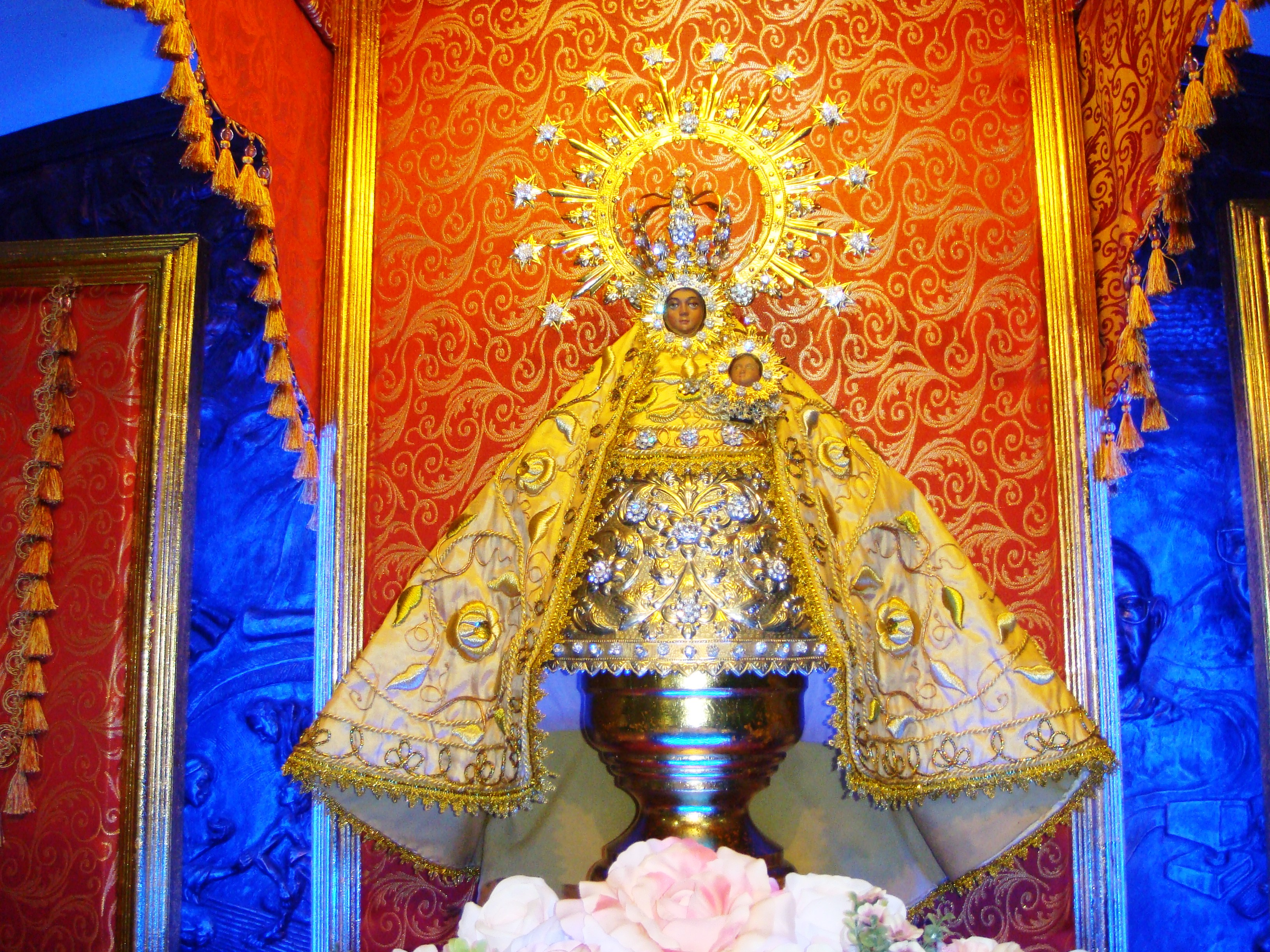 Our Lady of Peñafrancia (Spanish: Nuestra Señora de Peñafrancia) replica at San Juan de Dios Hospital